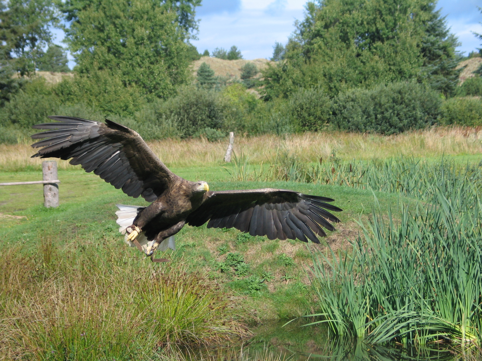 I took this picture of an (big bird ) in flight while visiting a Danish Eagle reservation called Ørnereservatet.